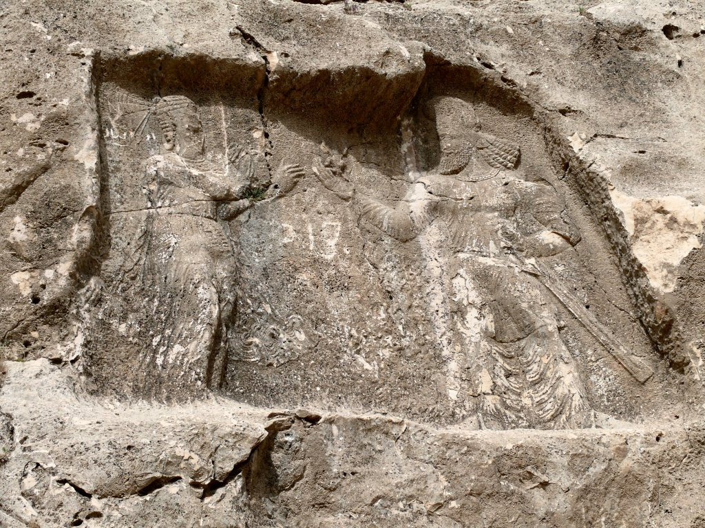 Rock relief said of Barm-e Dilak I. Family scene depicting the Sasanian king Bahram II offering a lotus flower to his wife. Area of Shiraz, province of Fars, Iran.